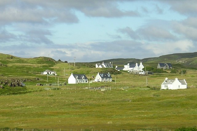 Ullinish , Skye. Looking north toward Ullinish Lodge Hotel